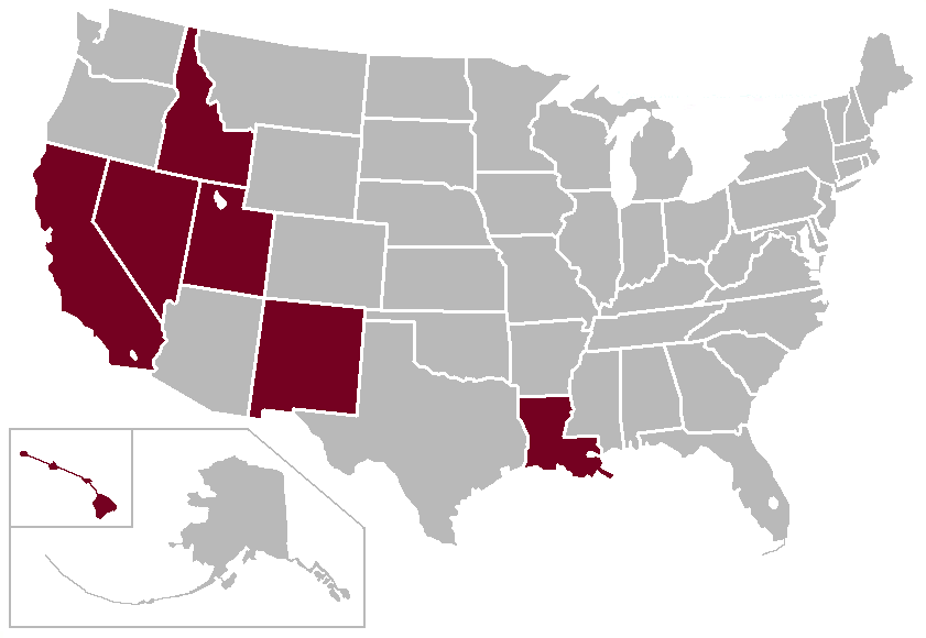 derived from Image:BlankMap-USA-states.PNG; map of states with Western Athletic Conference schools (and their division)